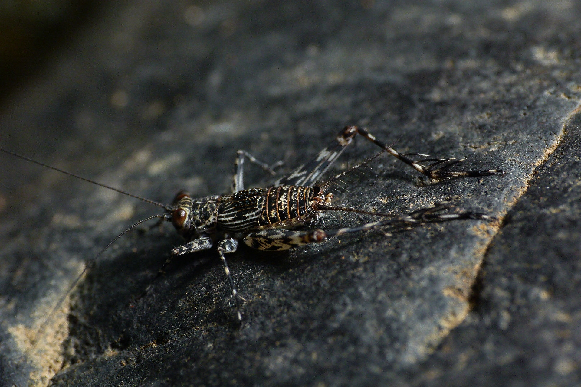 Paranemobius sp. Gryllidae, Wayanad, India.